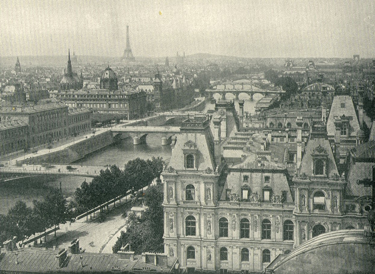 View of Paris Original caption: "BIRD'S EYE VIEW OF PARIS, FRANCE. -- Paris, the largest city in the French Republic, and its capital, covers an area of thirty square miles, with a population of about 2,000,000. The river Seine, which flows through the centre of the city, is spanned by twenty-eight bridges, of which the seven principal are shown in this photograph. The city is noted for its fine parks, magnificent churches, colossal buildings, and wide boulevards, of which the Champs Elysees is the most famous. Paris is the centre of the political, artistic, scientific, commercial and industrial life of the nation."